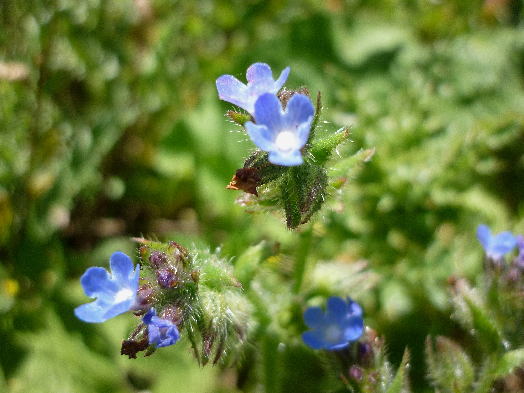 Anchusa arvensis. In Estana (Baixa Cerdanya-Catalunya). To 1.540 m. altitude